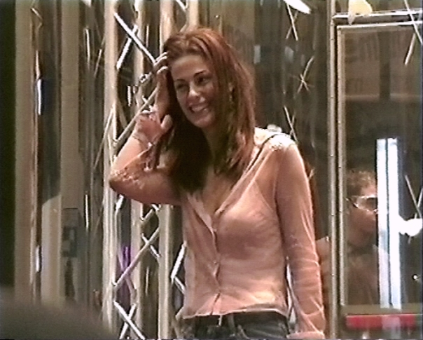 Spanish-Italian television presenter and model Vanessa Incontrada at MSN stand at 2000 SMAU (Milan, Italy).